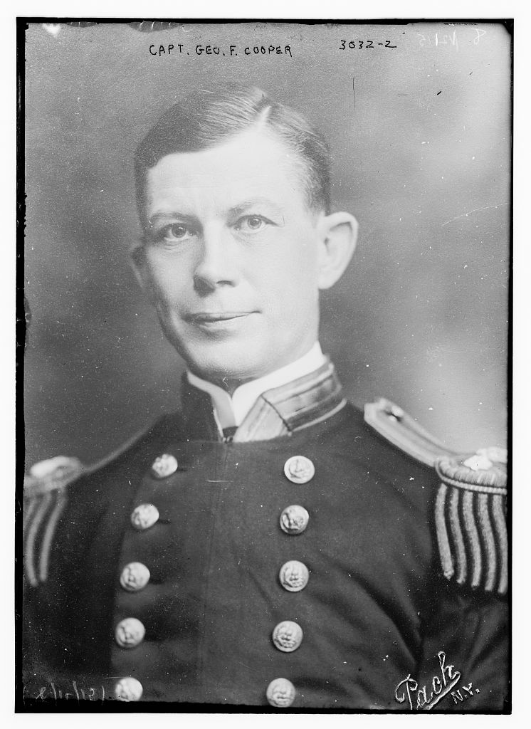 Capt. Geo F Cooper (LOC) Bain News Service, publisher. Capt. George F. Cooper [between ca. 1910 and ca. 1915] 1 negative : glass ; 5 x 7 in. or smaller. Notes: Title from unverified data provided by the Bain News Service on the negatives or caption cards. Forms part of: George Grantham Bain Collection (Library of Congress). Format: Glass negatives. Repository: Library of Congress, Prints and Photographs Division, Washington, D.C. 20540 USA, General information about the Bain Collection is available at Persistent URL: Call Number: LC-B2- 3032-2